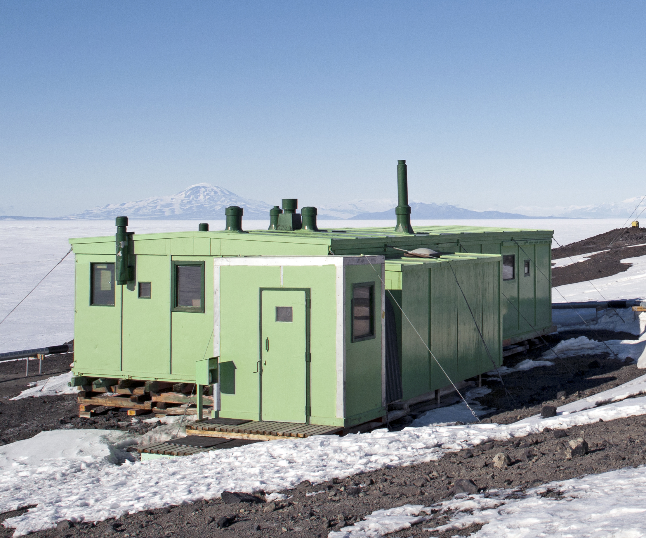 The A Hut of Scott Base, being the only existing Trans Antarctic Expedition 1956/1957 building in Antarctica sited at Pram Point, Ross Island, Ross Sea Region, Antarctica.